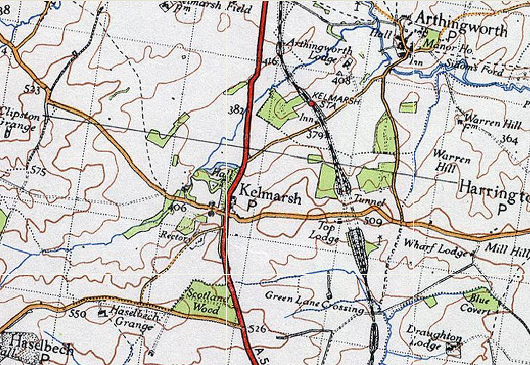 1948 Ordnance Survey map section showing location of Kelmarsh railway station